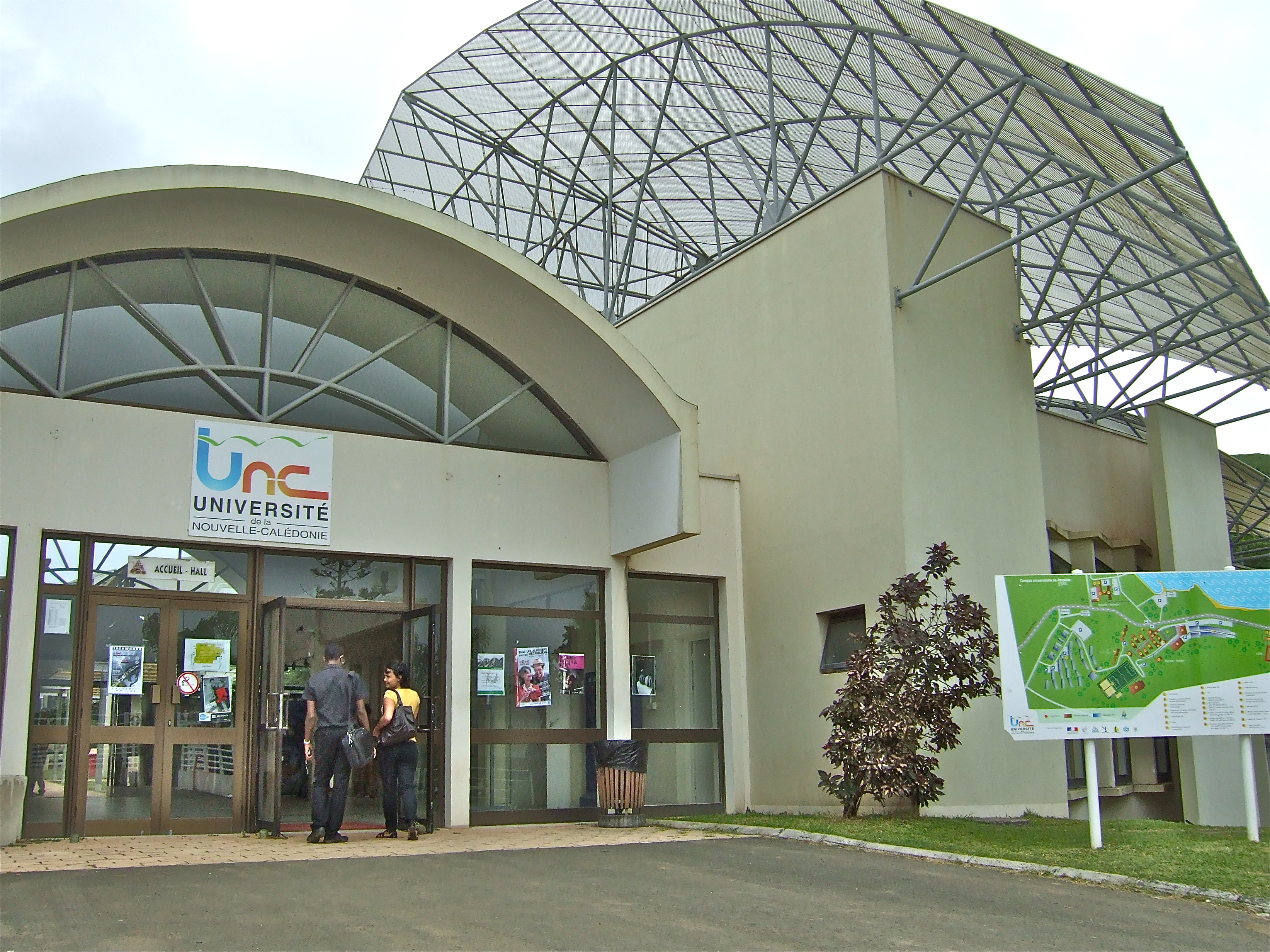 Main building at Nouville campus, University of New Caledonia Other information Photo by George Garrigues.